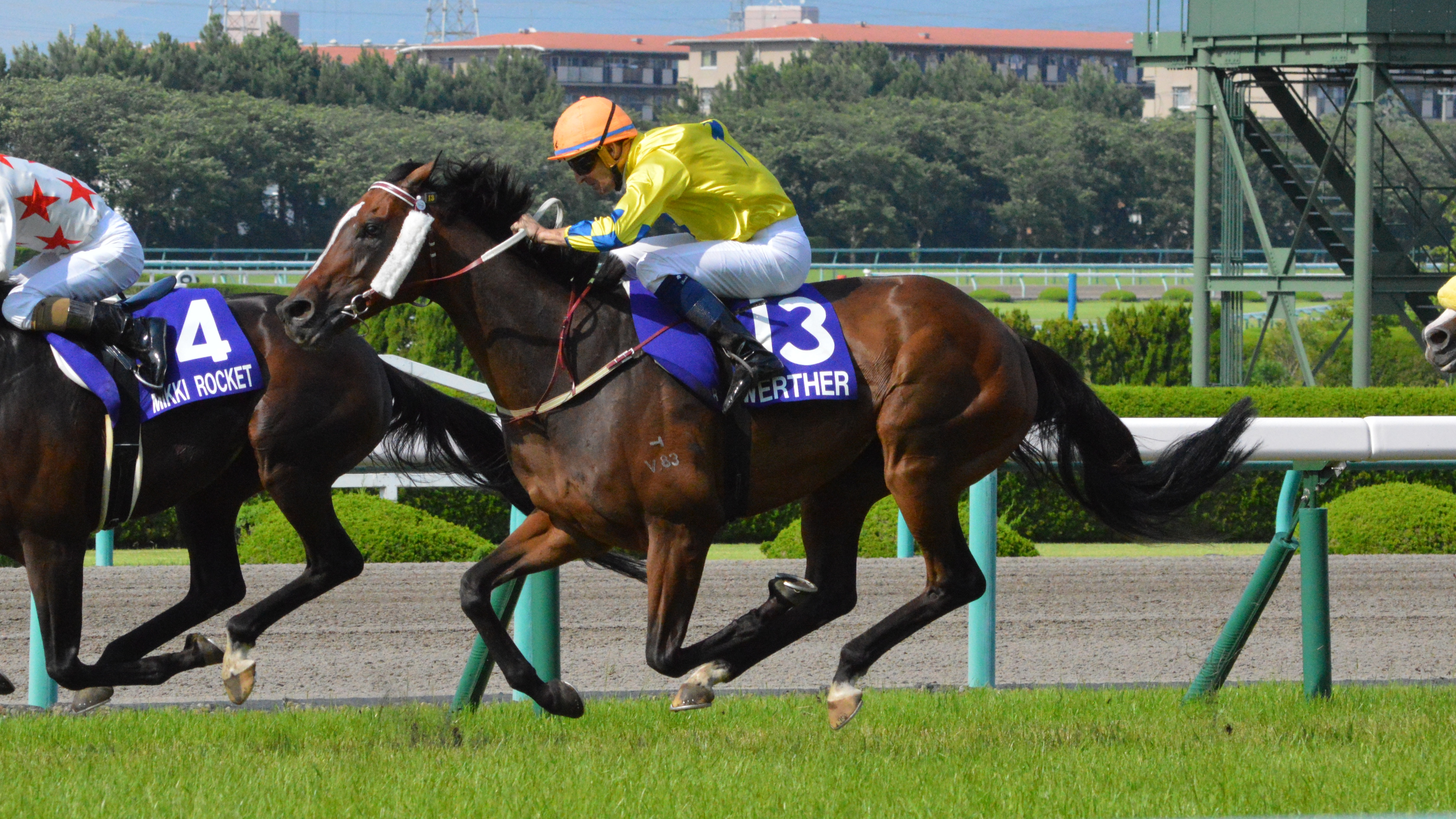 Hong Kong race horse Werther at Hanshin racecourse. Hanshin (JPN) 24 Jun 2018Takarazuka Kinen (Grade 1) (3yo+) (Turf) 1m3f Good RankHorse NameOddsAgeWgtJockeyTrainer1stMikki Rocket (JPN)121/10H59-2Ryuji WadaHidetaka Otonashi2ndWerther (NZ)139/10G69-2Hugh BowmanJohn MooreOthers are omitted. (16 horses entered in a race.)